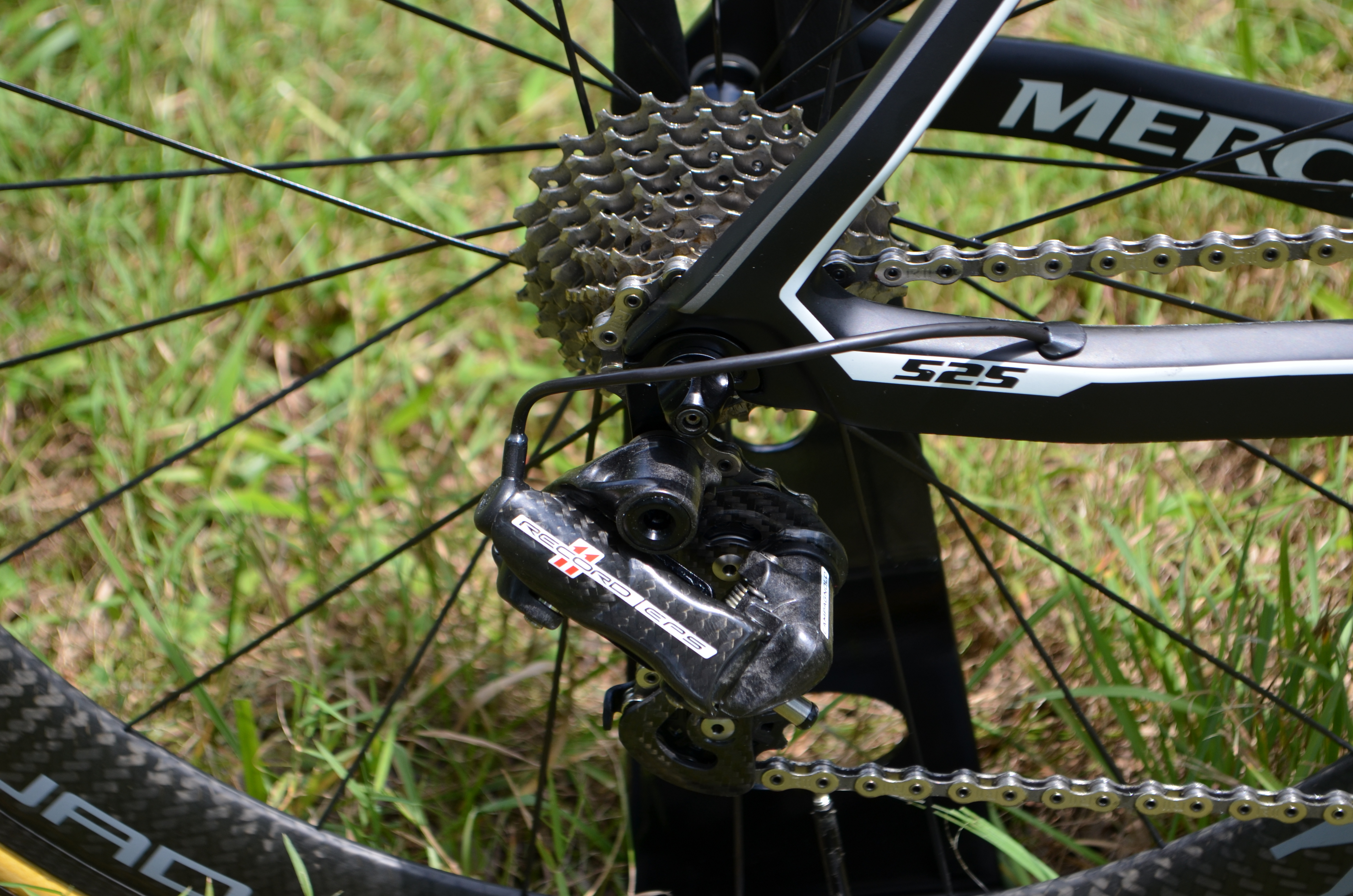 Eddy Merckx 525 with Campagnolo Record EPS